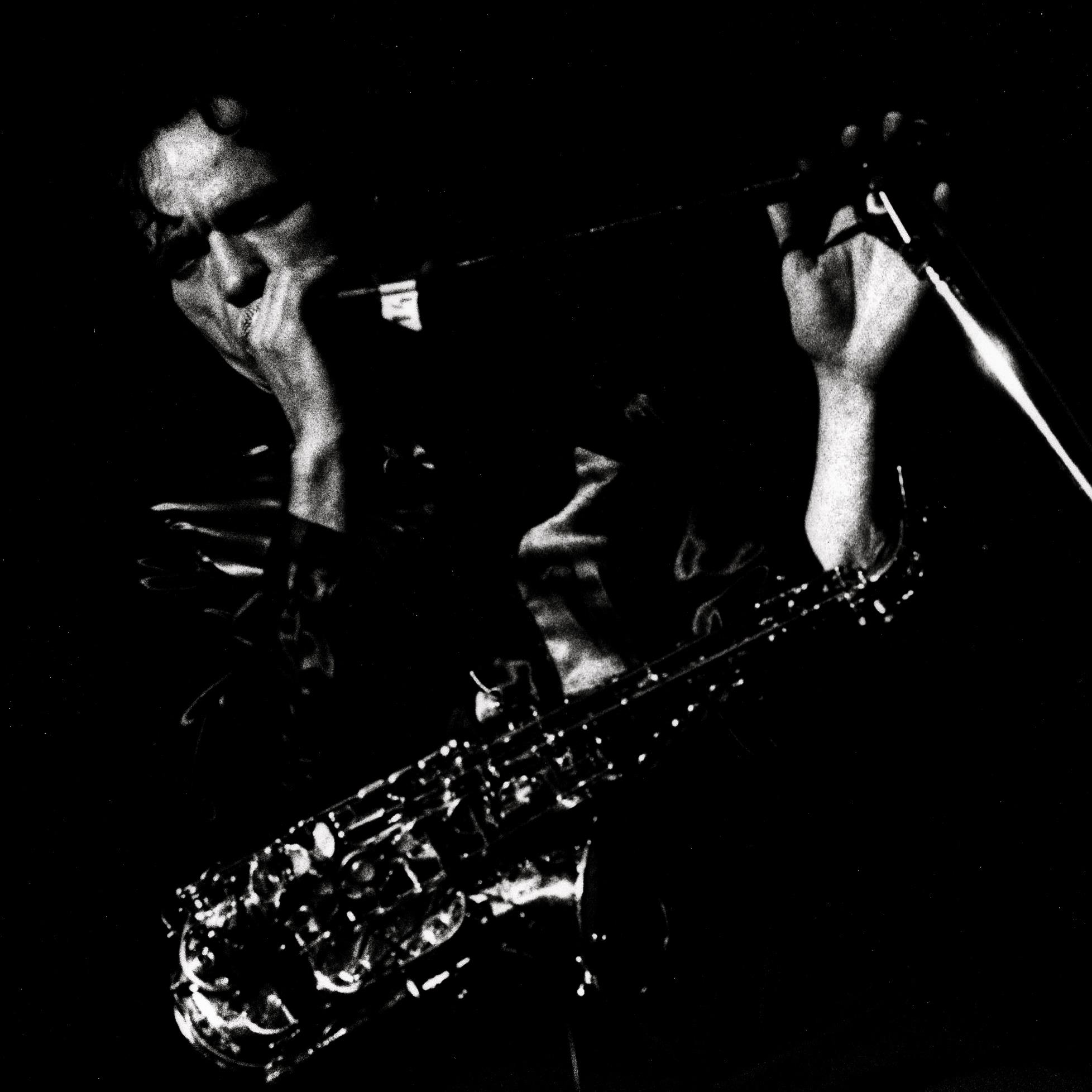 Laurent Petitgand in concert